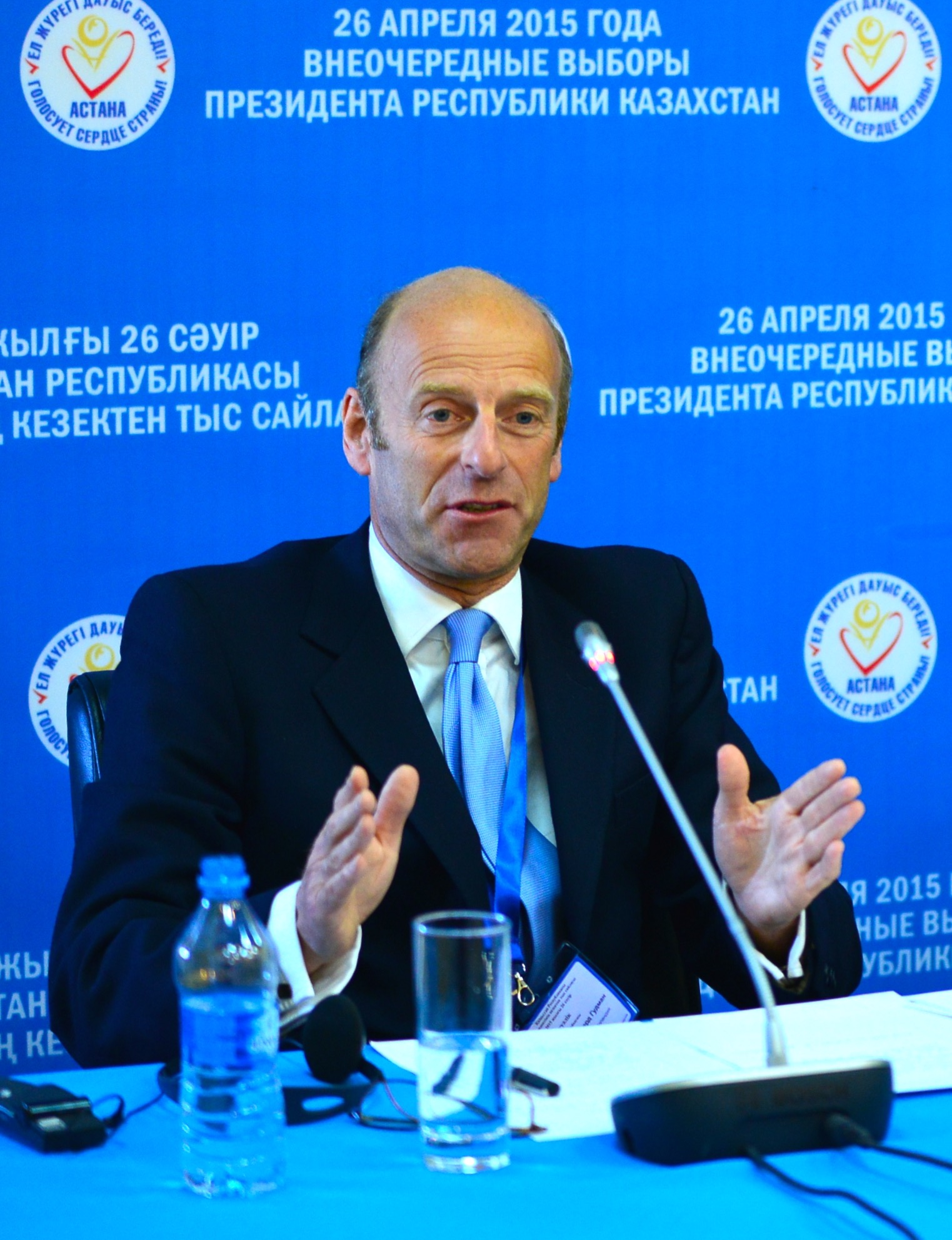 Rupert Goodman DL